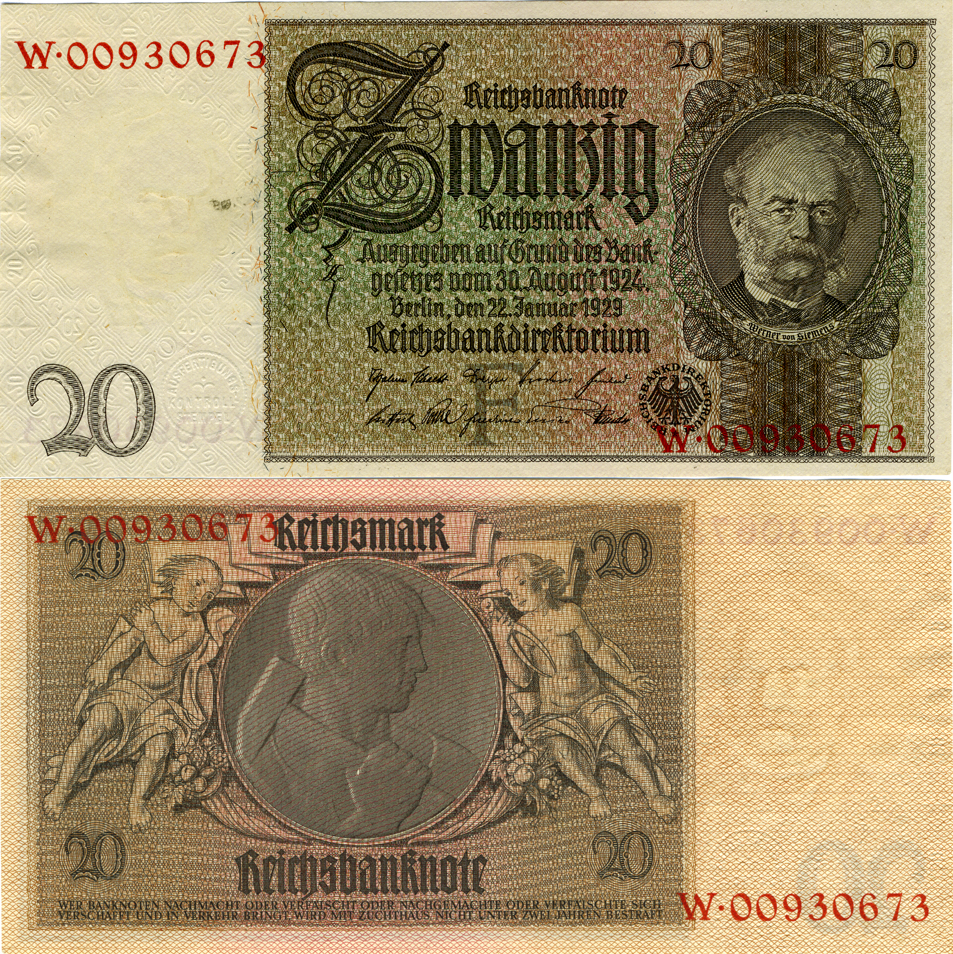 20 Reichsmark dated 1929-01-22